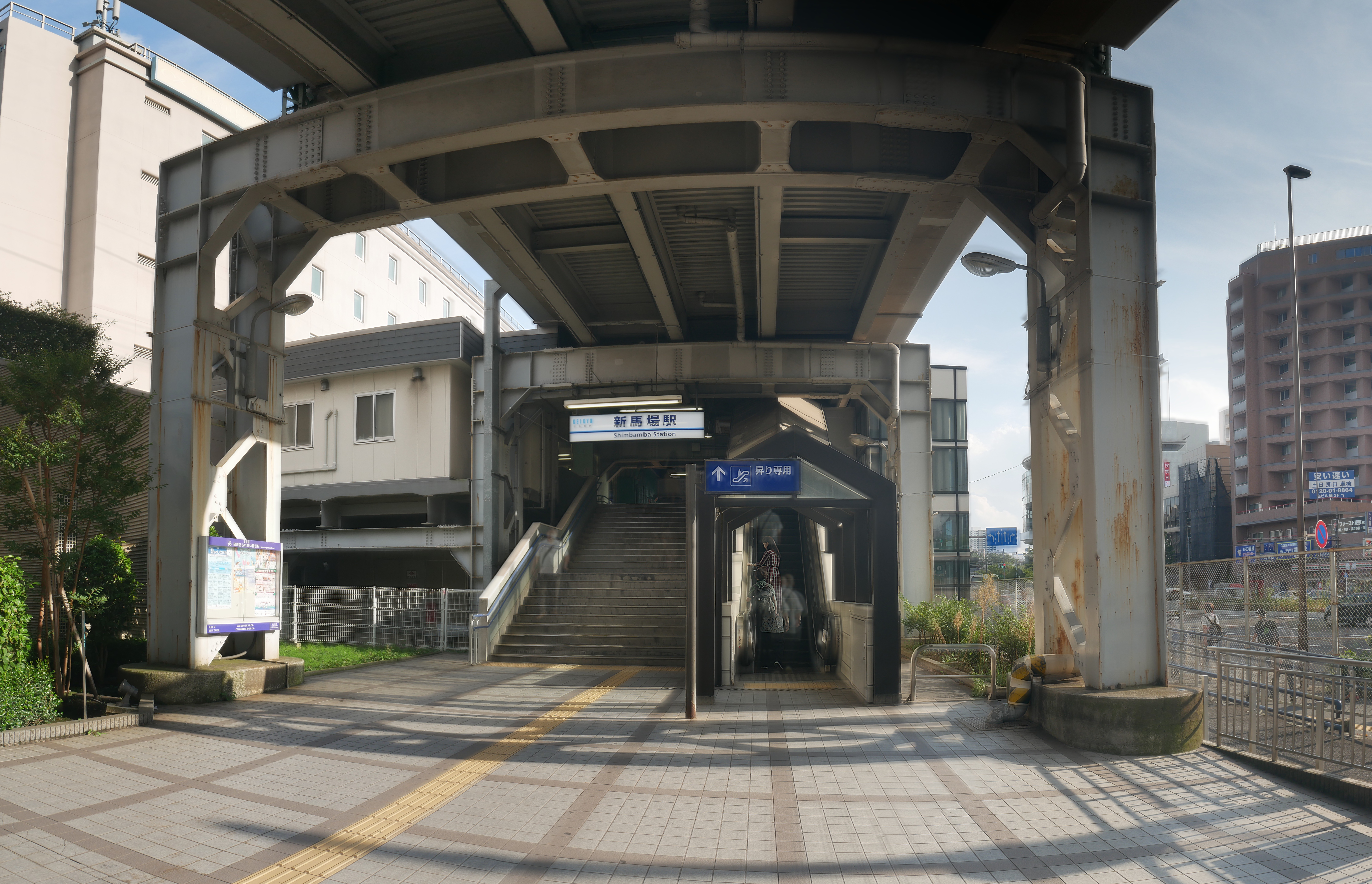 Shimbamba Station north exit (新馬場駅の北口)